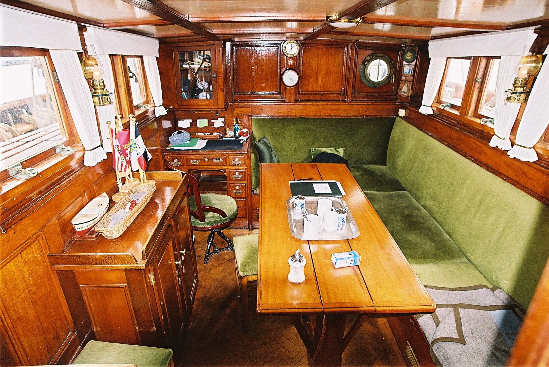 three-masted schooner Amphitrite